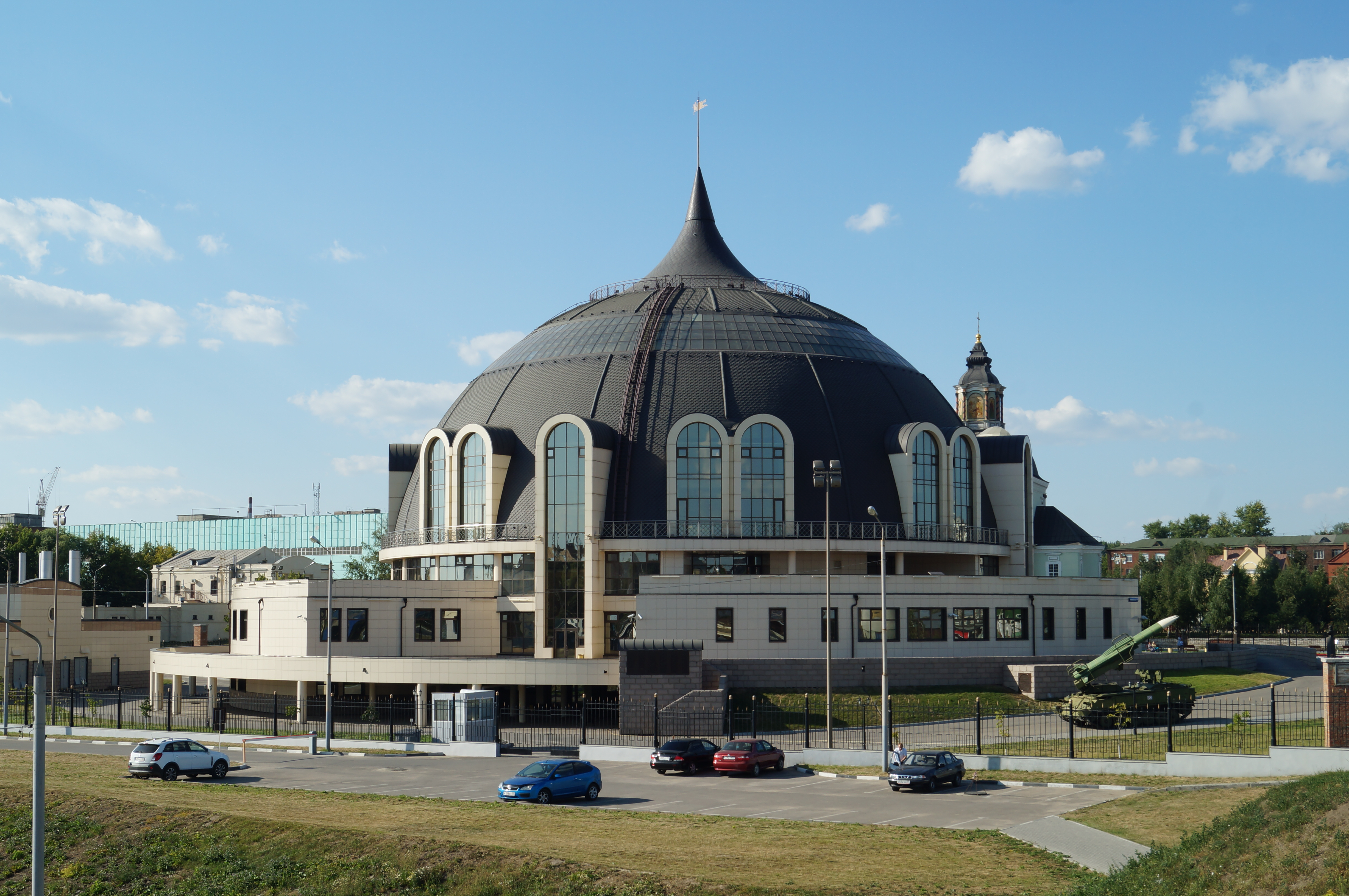 Tula State Museum of Weapons